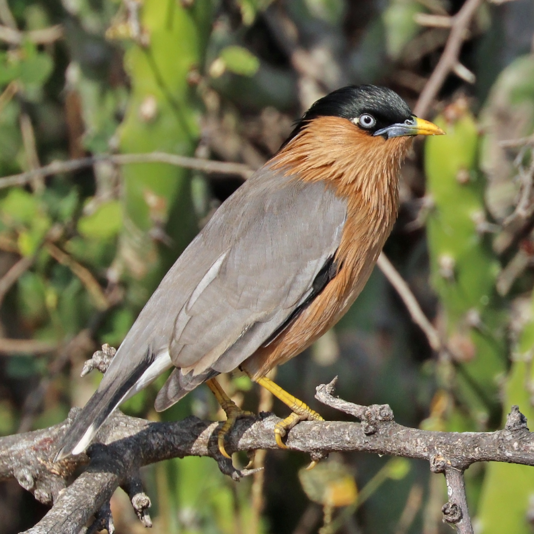 Brahminy starling (Sturnia pagodarum) female, Jawai, Rajasthan, India